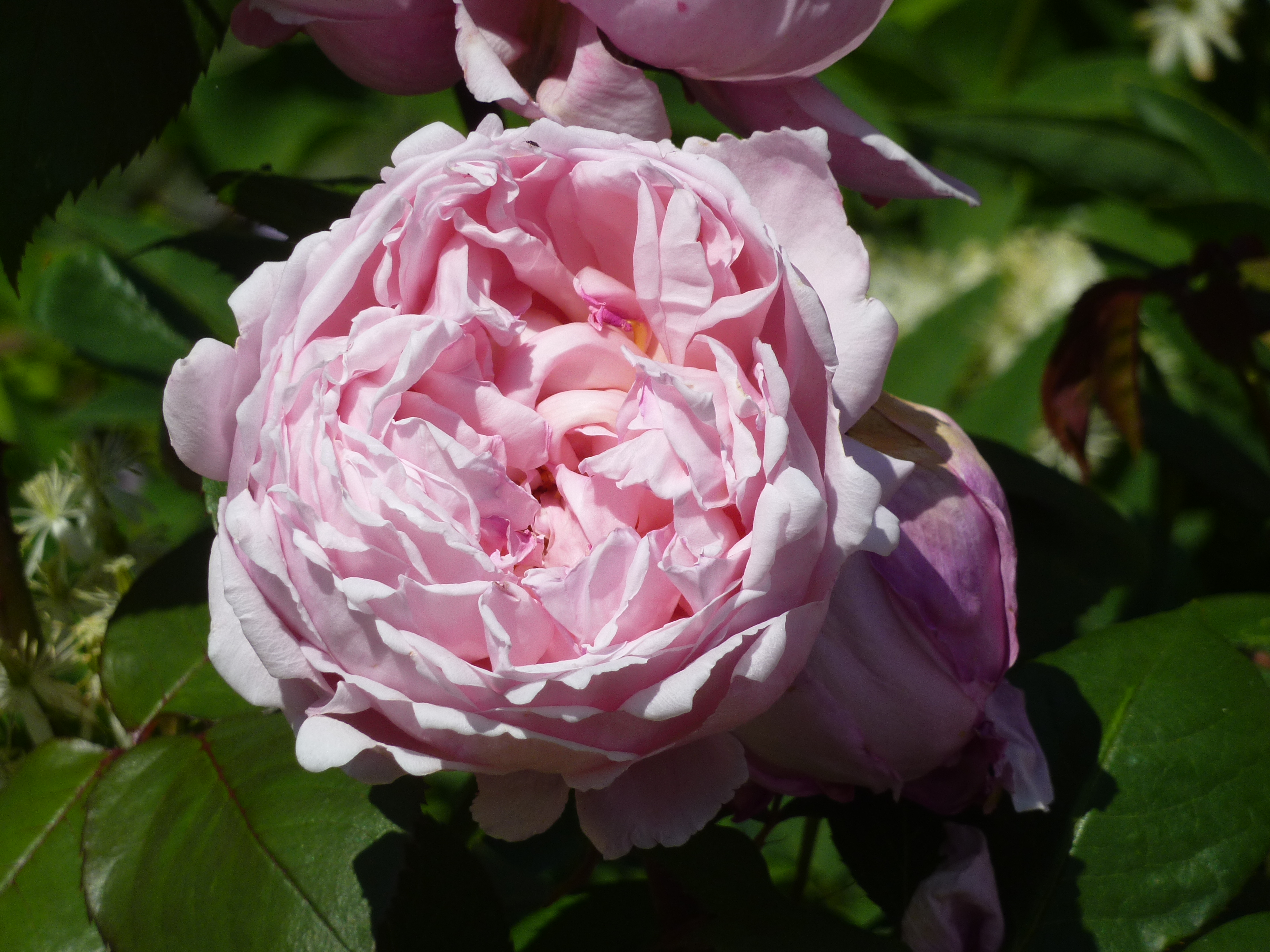 Taken in the Cambridge University Botanic Garden